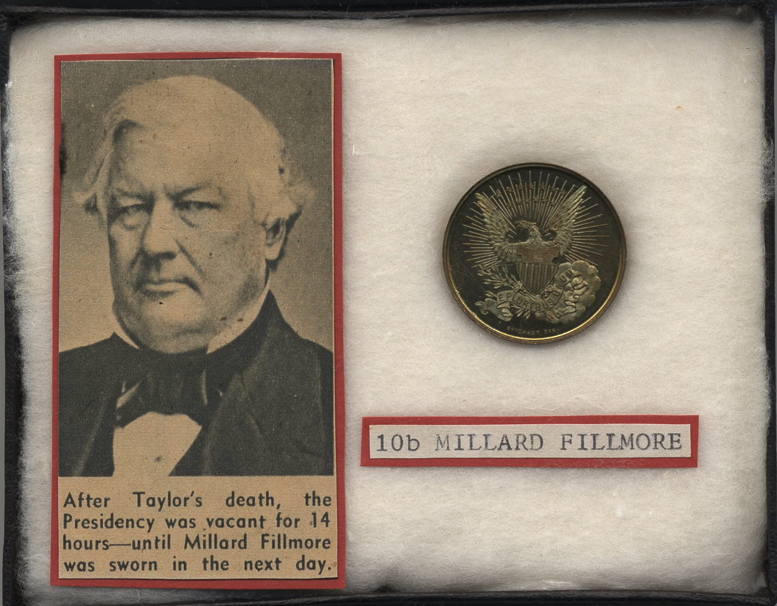 Collection: Cornell University Collection of Political Americana, Cornell University Library Repository: Susan H. Douglas Political Americana Collection, #2214 Rare & Manuscript Collections, Cornell University Library, Cornell University Title: Fillmore Commemorative Items Political Party: Whig Date Made: ca. 1849-ca. 1960 Classification: Ephemera Persistent URI: There are no known U.S. copyright restrictions on this image. The digital file is owned by the Cornell University Library which is making it freely available with the request that, when possible, the Library be credited as its source.